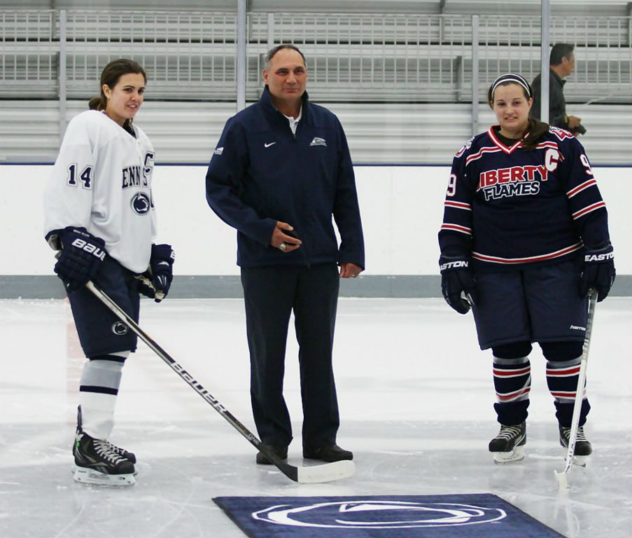 The ceremonial faceoff at the first intercollegiate hockey game at Pegula Ice Arena, between Penn State and Liberty